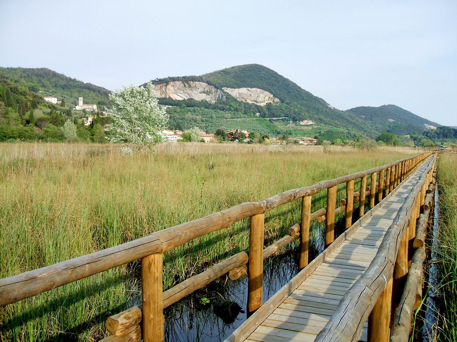 Swamp of lake Massaciuccoli